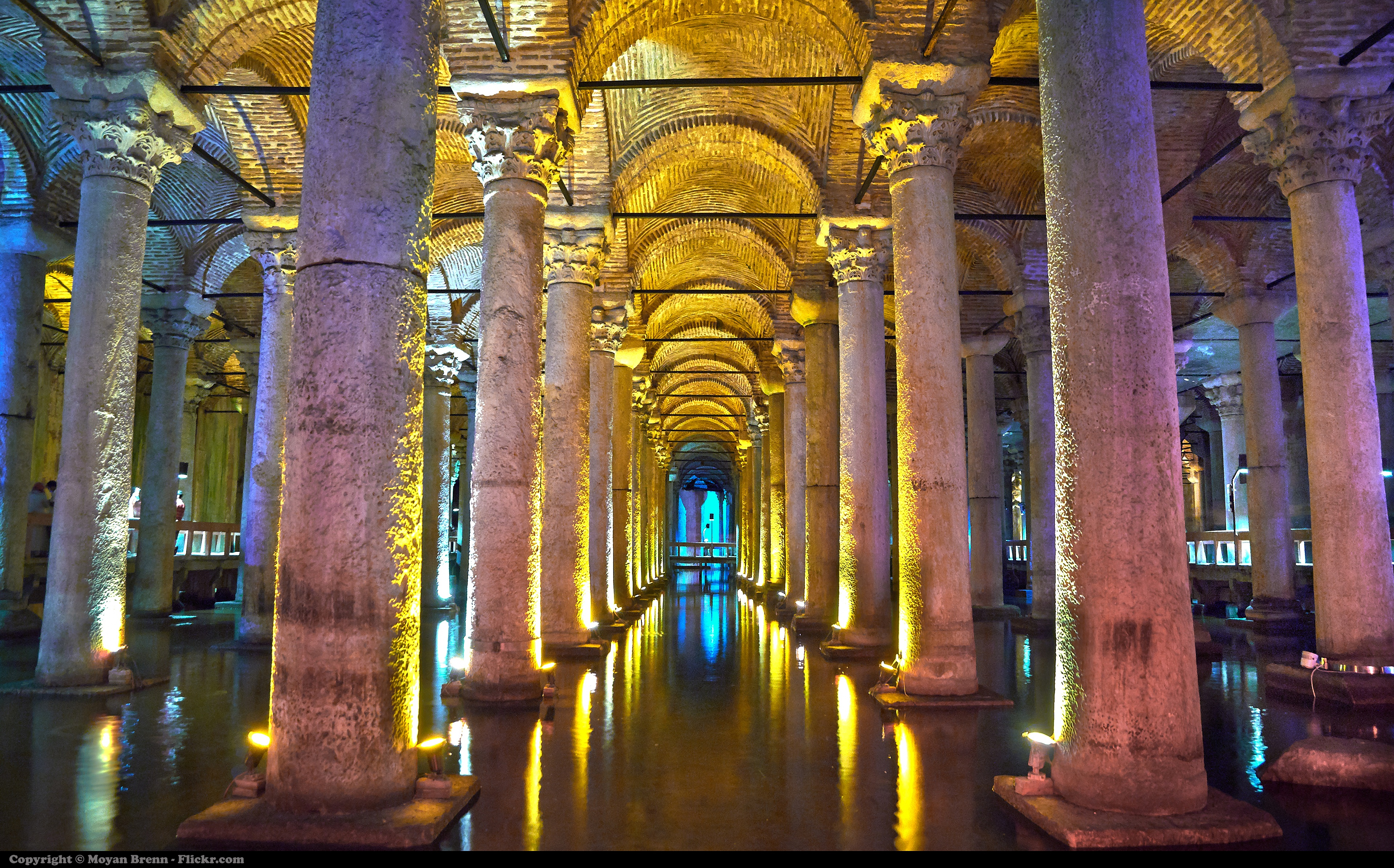 internal view of the subterranean of Hagia Sophya NOTE FOR EDITORIAL/COMMERCIAL USE: In case of editorial/commercial use of this picture, in addition to my permission, a further explicit consent from the owners of the elements depicted in the image, could be eventually needed, for which I may try to provide more info. In this sense, the picture has been taken from a public street.